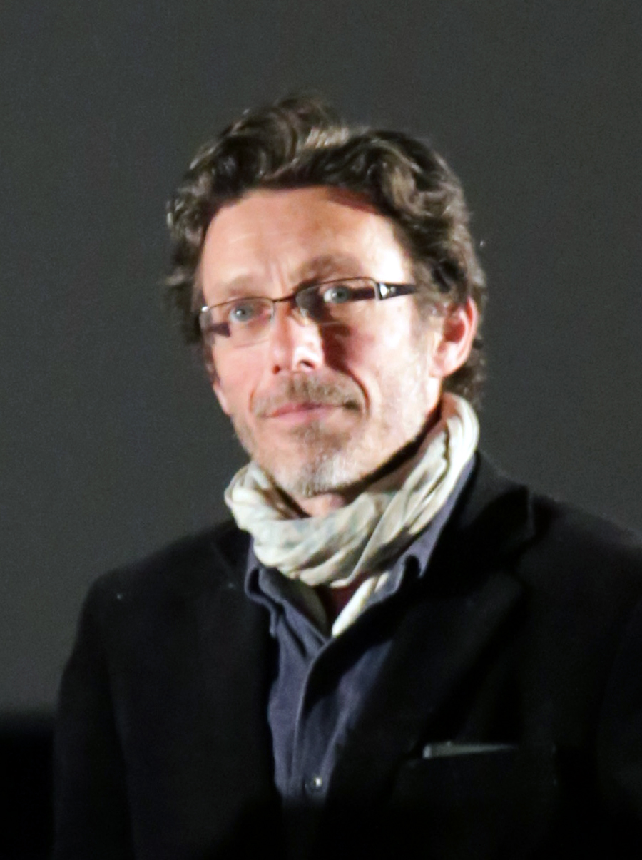 Nils Tavernier at the premiere of the film De toutes nos forces, 7 March 2014